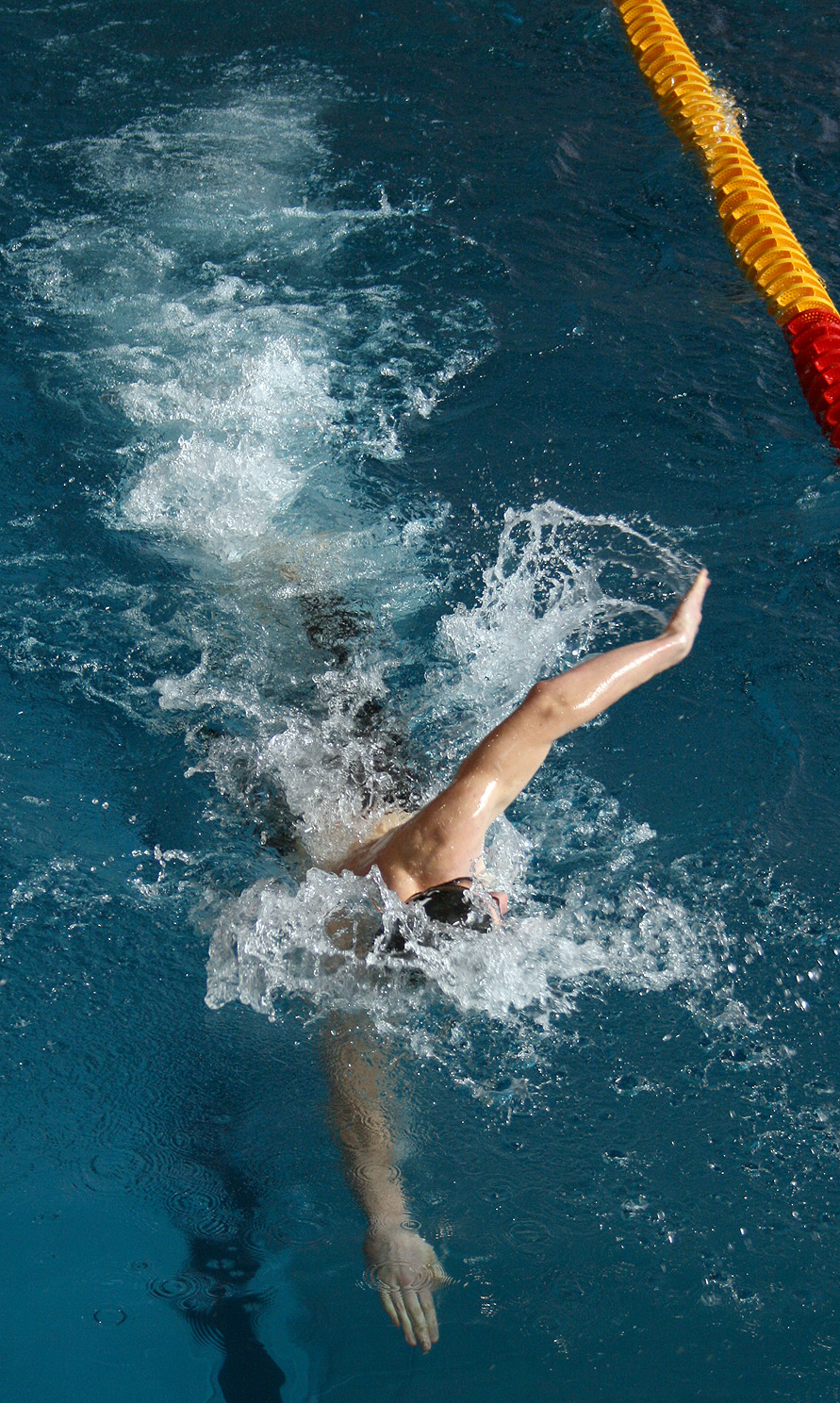 Austrian swimmer Dinko Jukic at the 19th International Stroeck Austria-Meeting 2008 at the Wiener Stadthalle.